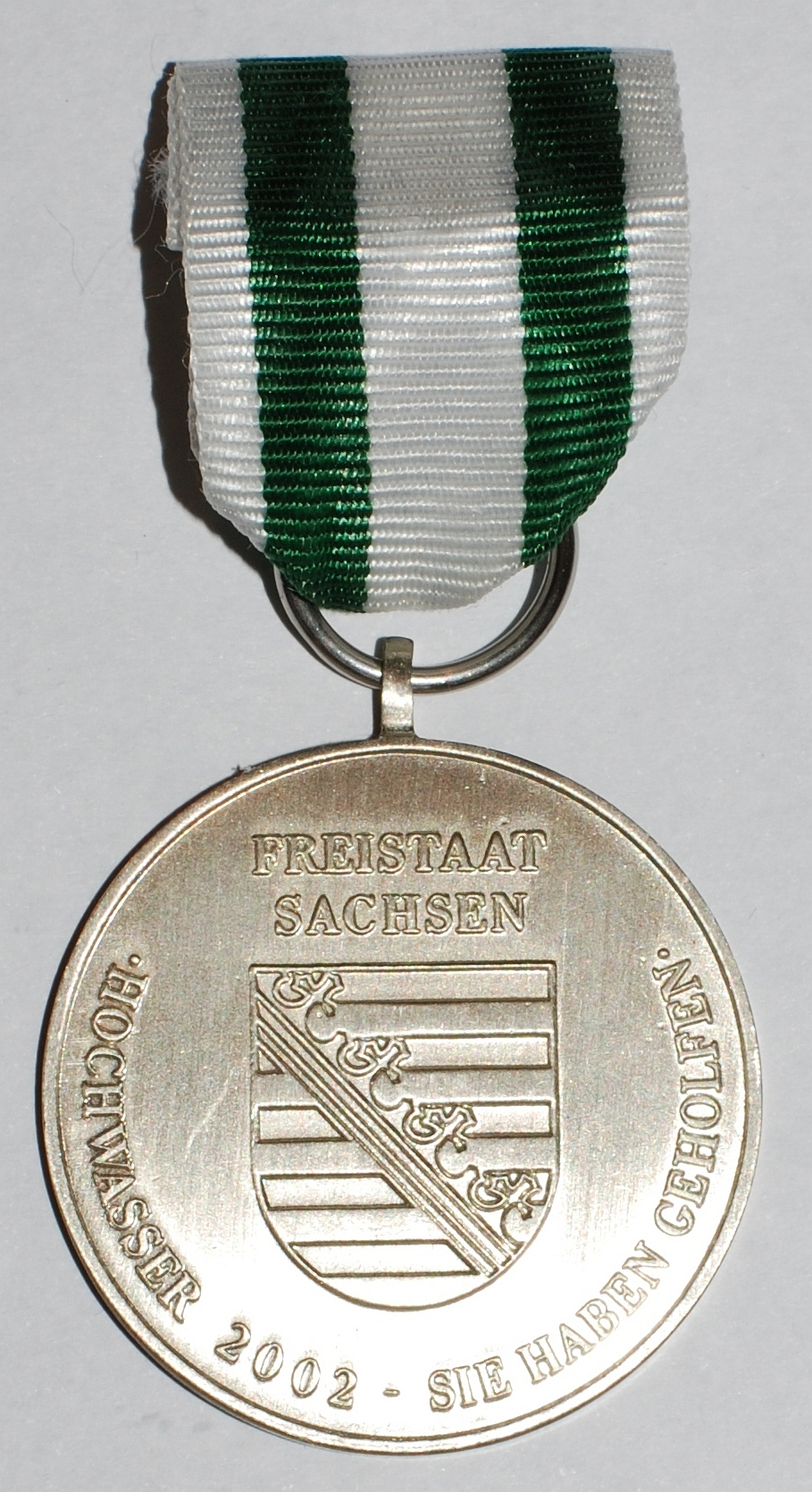 Saxoninan Flood Medal